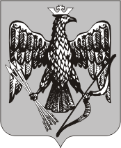 Albazin (Amur oblast), historical coat of arms